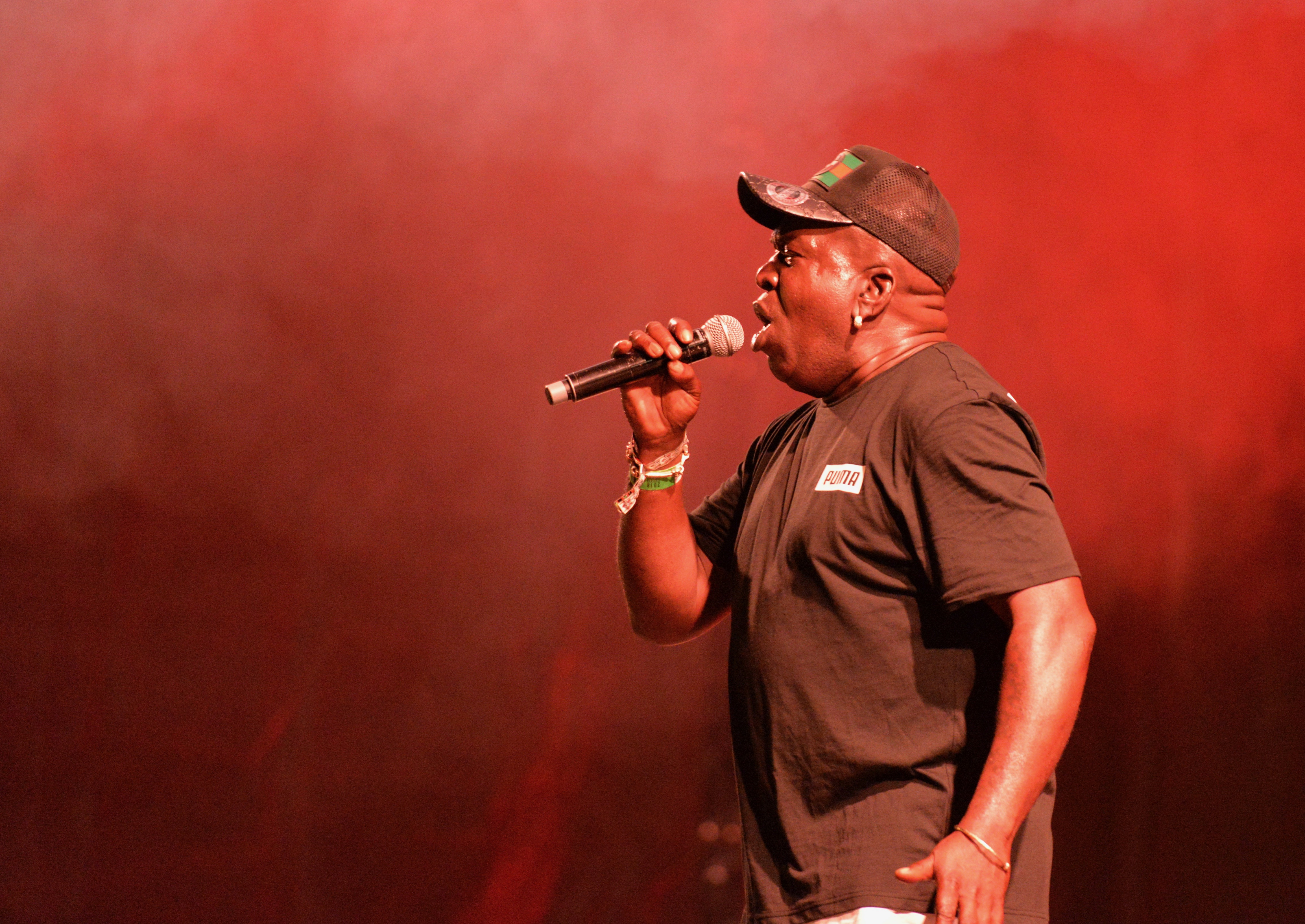 Barrington Levy in concert at Reggae Geel August 3 2018